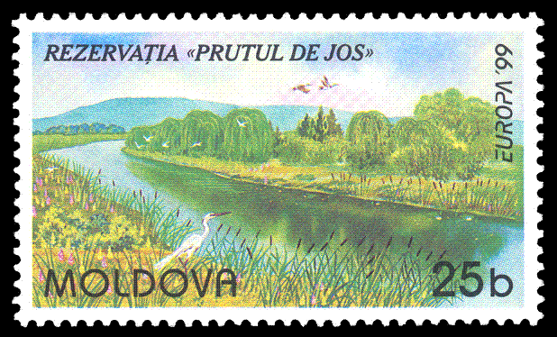 Stamp of Moldova